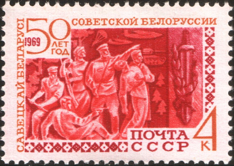 USSR stampː Partisans and Sword. Seriesː 50th anniversary of the Byelorussian Soviet Socialist Republic